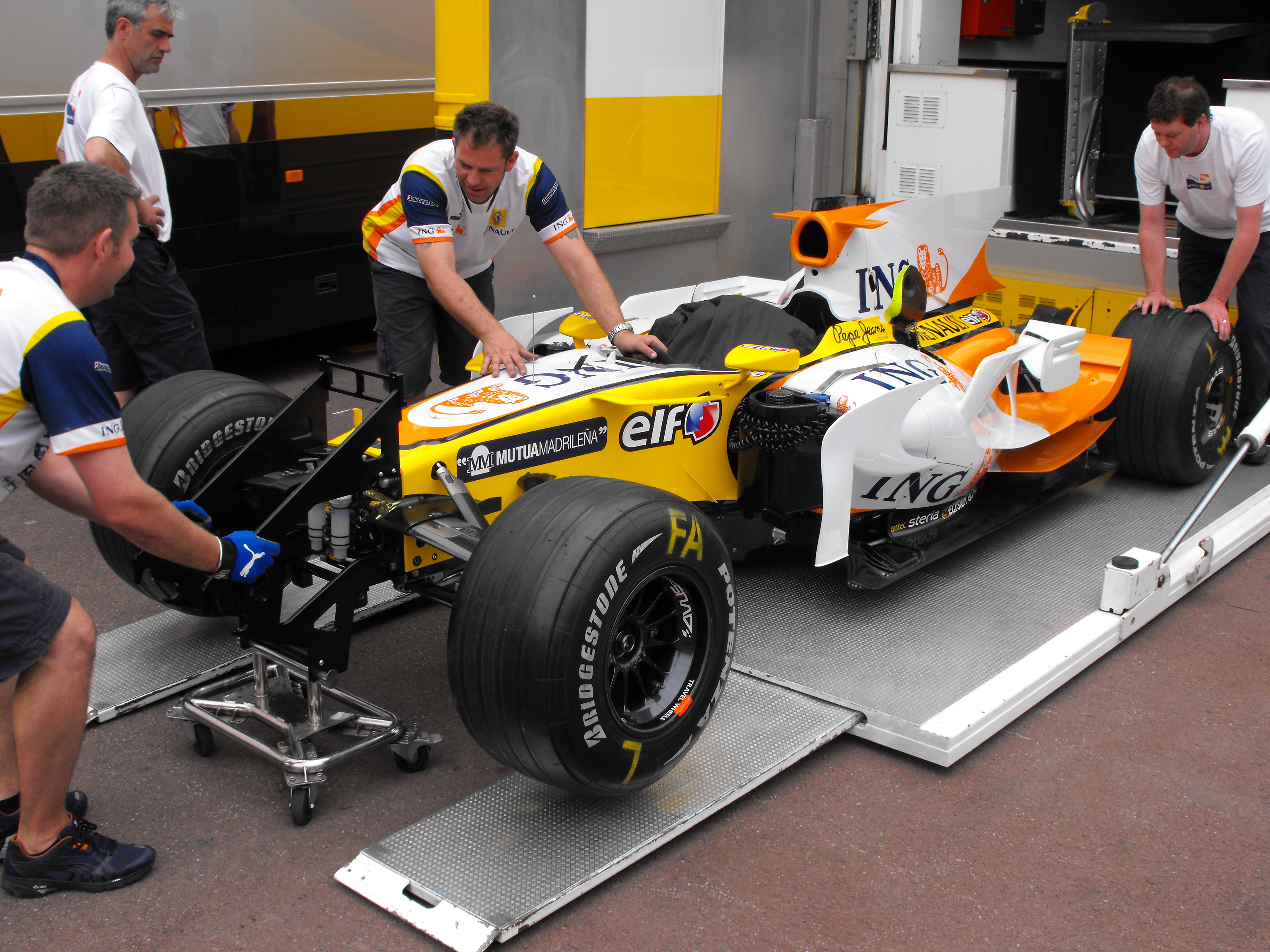 Two Renault R28 Formula 1 racing cars being unloaded from the Renault trailer at the pit lane at the 2008 Monaco Grand Prix.